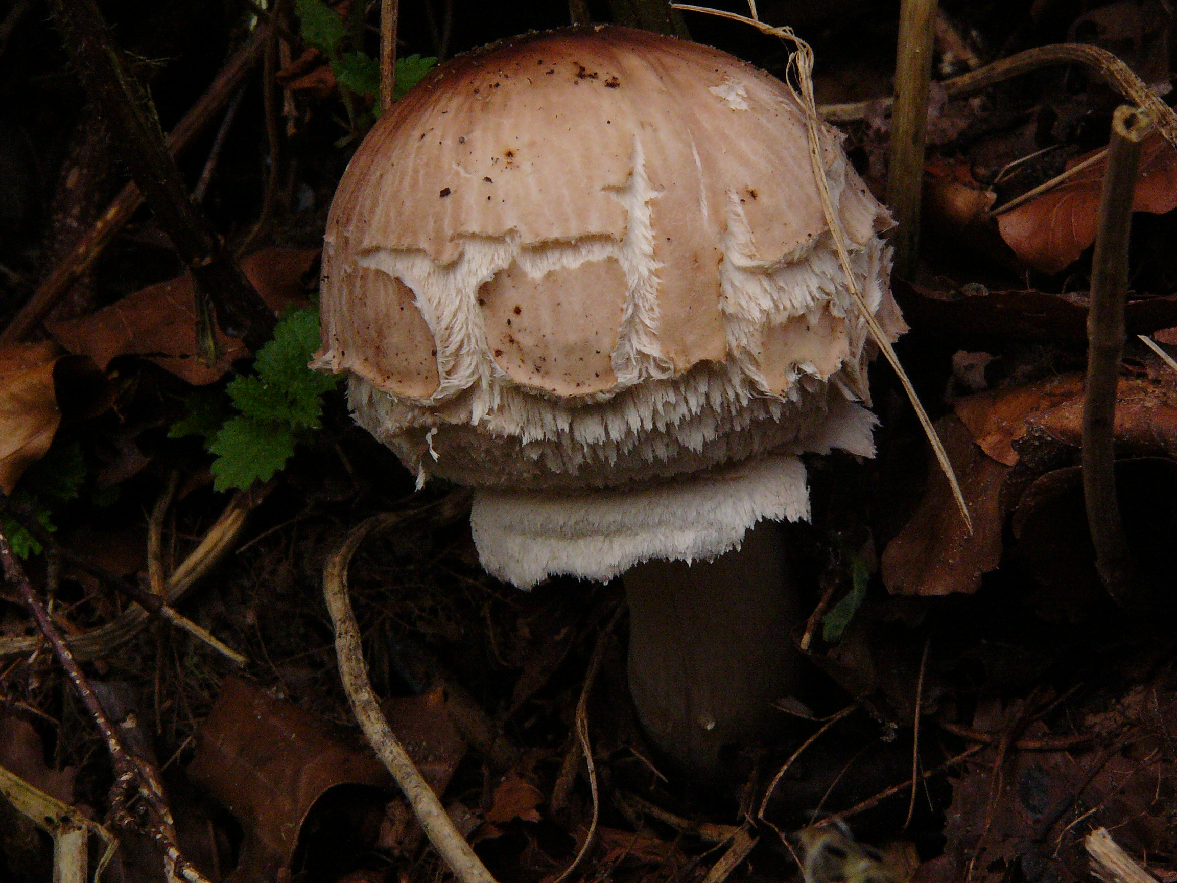 The making of this document was supported by the Community-Budget of Wikimedia Germany.